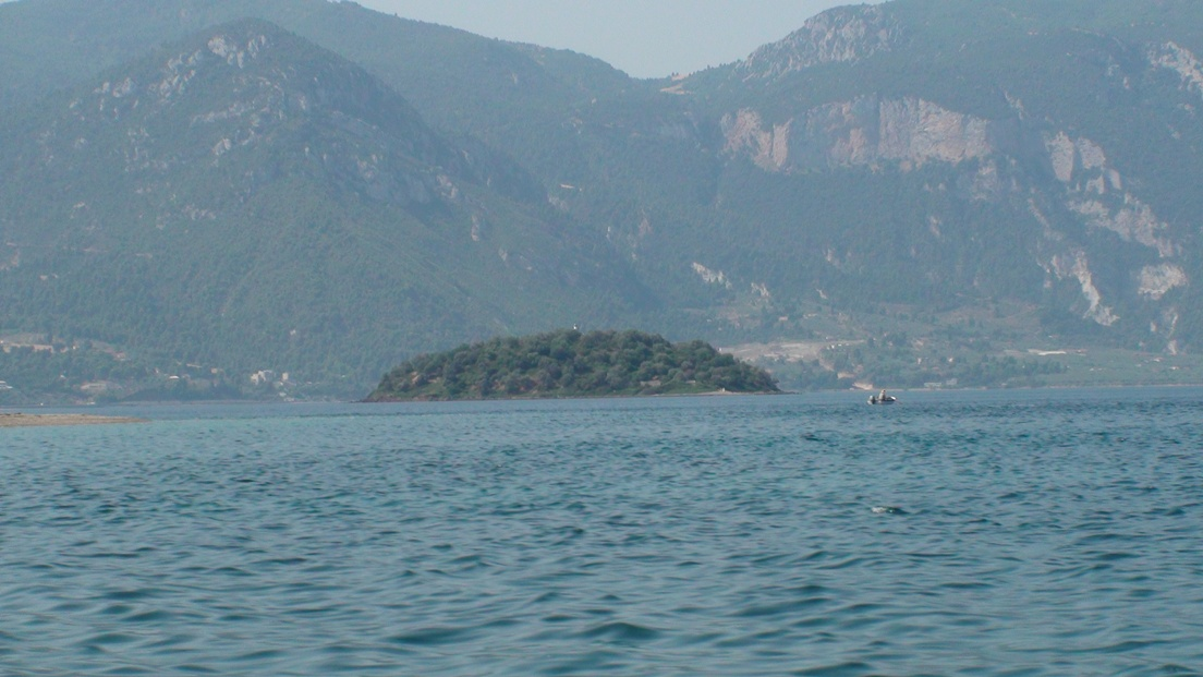 Strogili islet of Lichas islet complex in Euboea, Greece